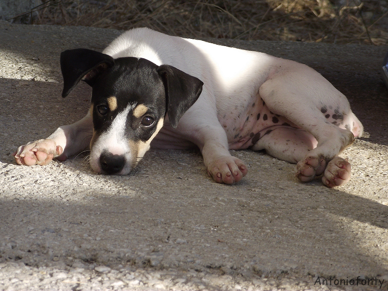 Bodeguero andaluz